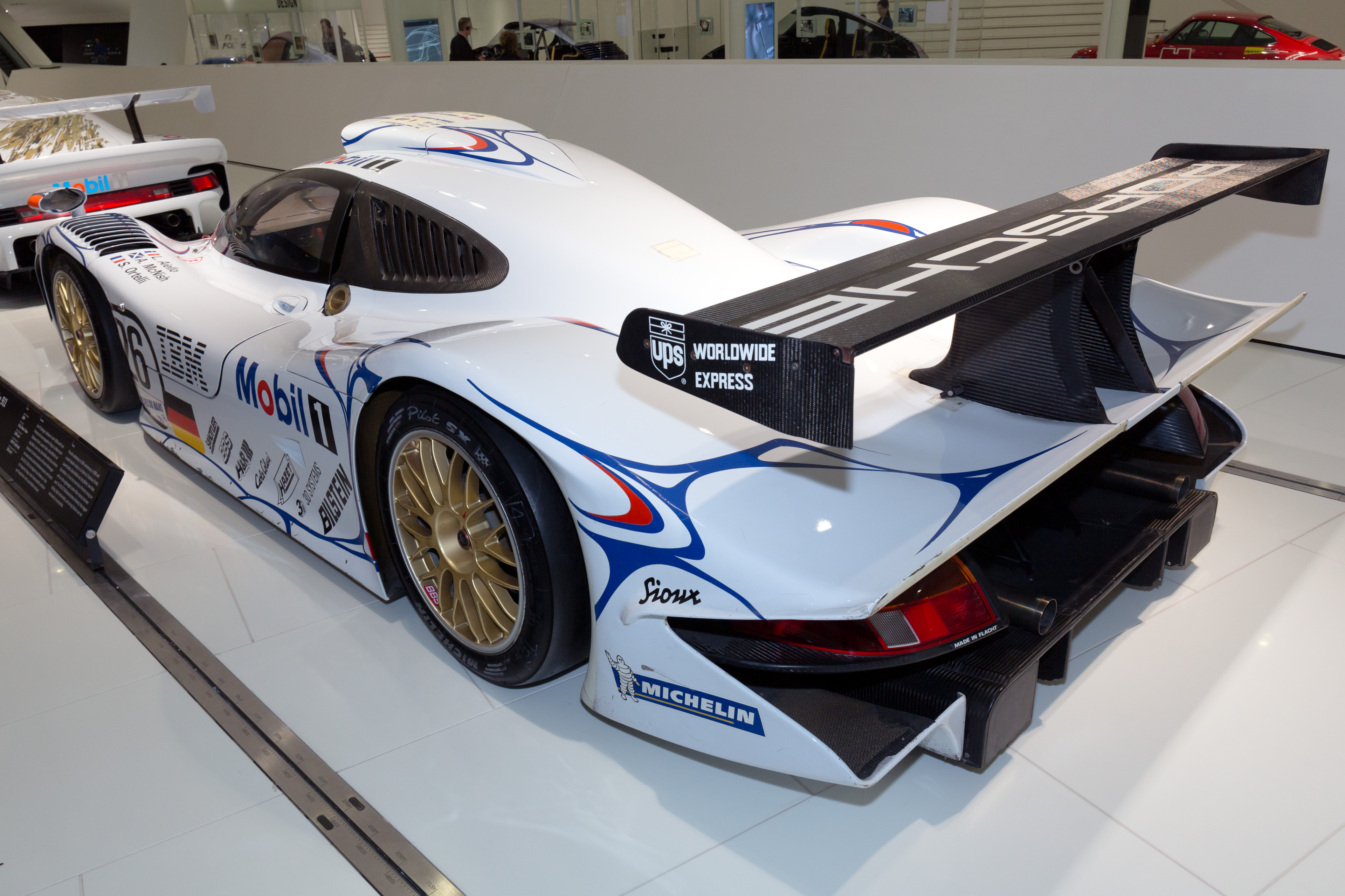 1998 Porsche 911 GT1 '98